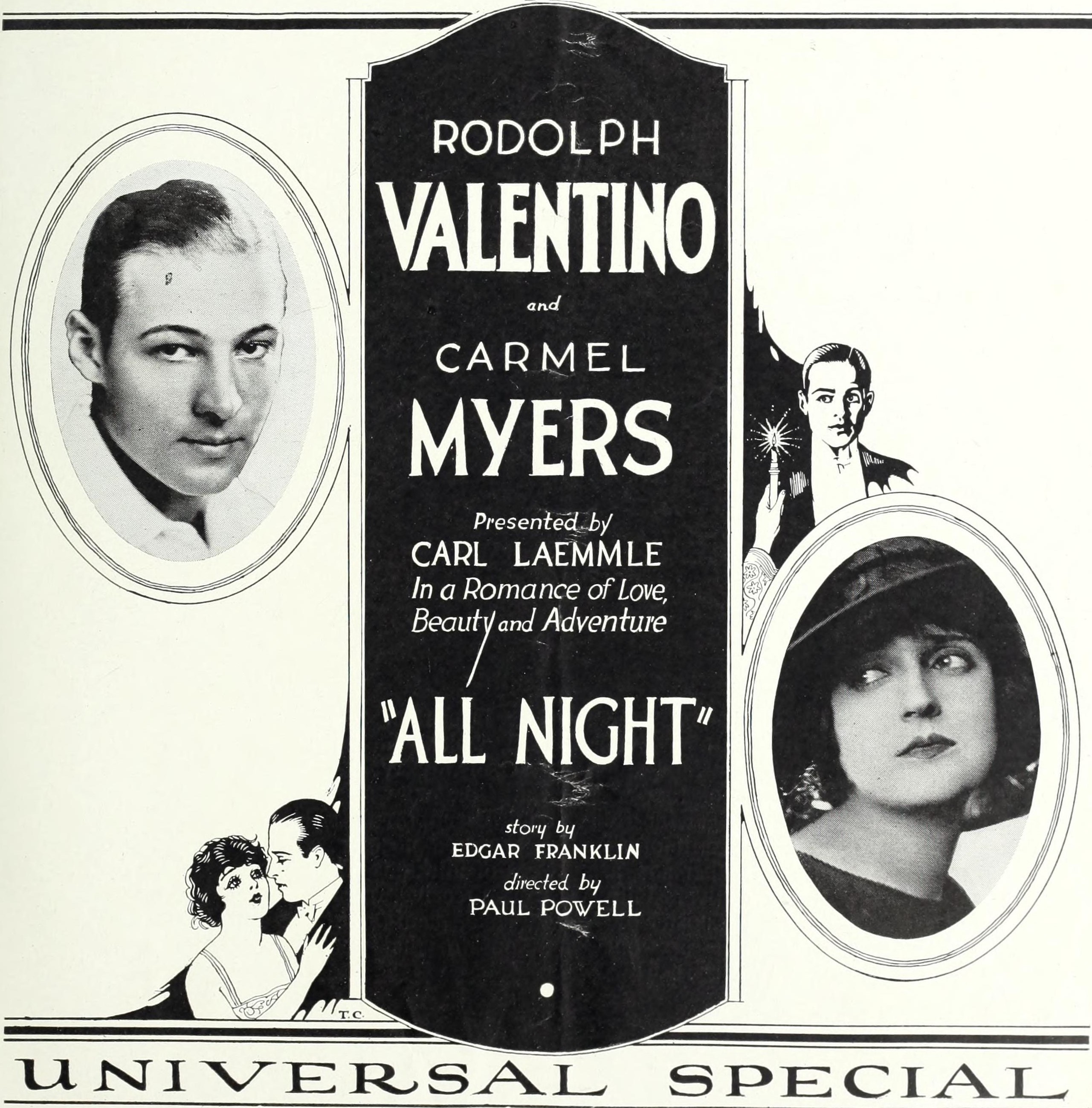 Ad for the American film All Night (1918) with Carmel Myers and Rudolph Valentino, on the inside of the back cover of the December 9, 1922 Universal Weekly. The film was re-released in 1922 after the increase in popularity of Valentino.